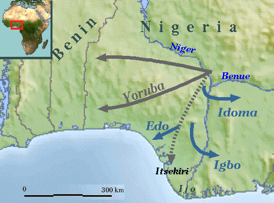 Prehistoric Migration in SW-Nigeria